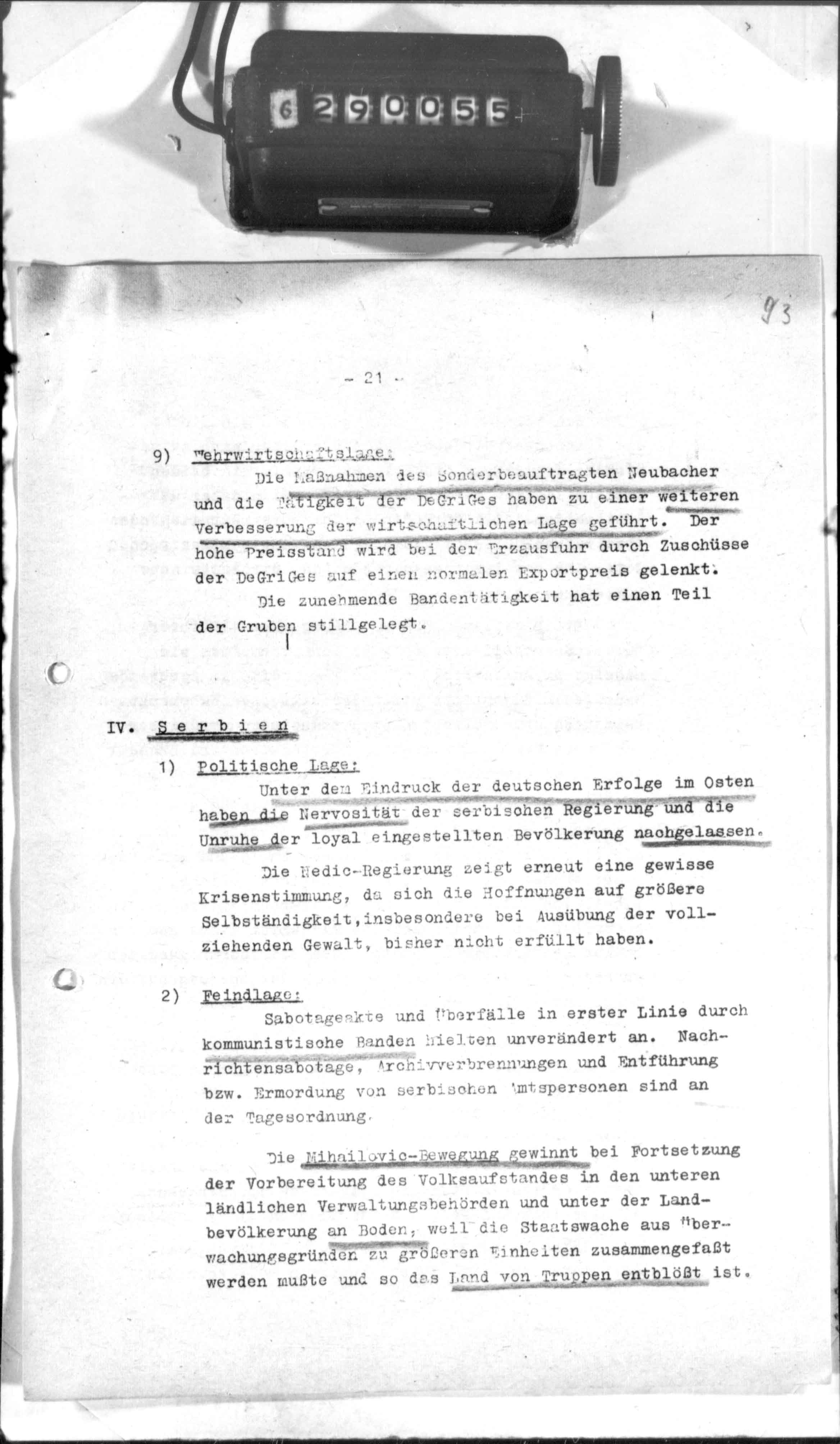 Lohr's report after operation Weiss